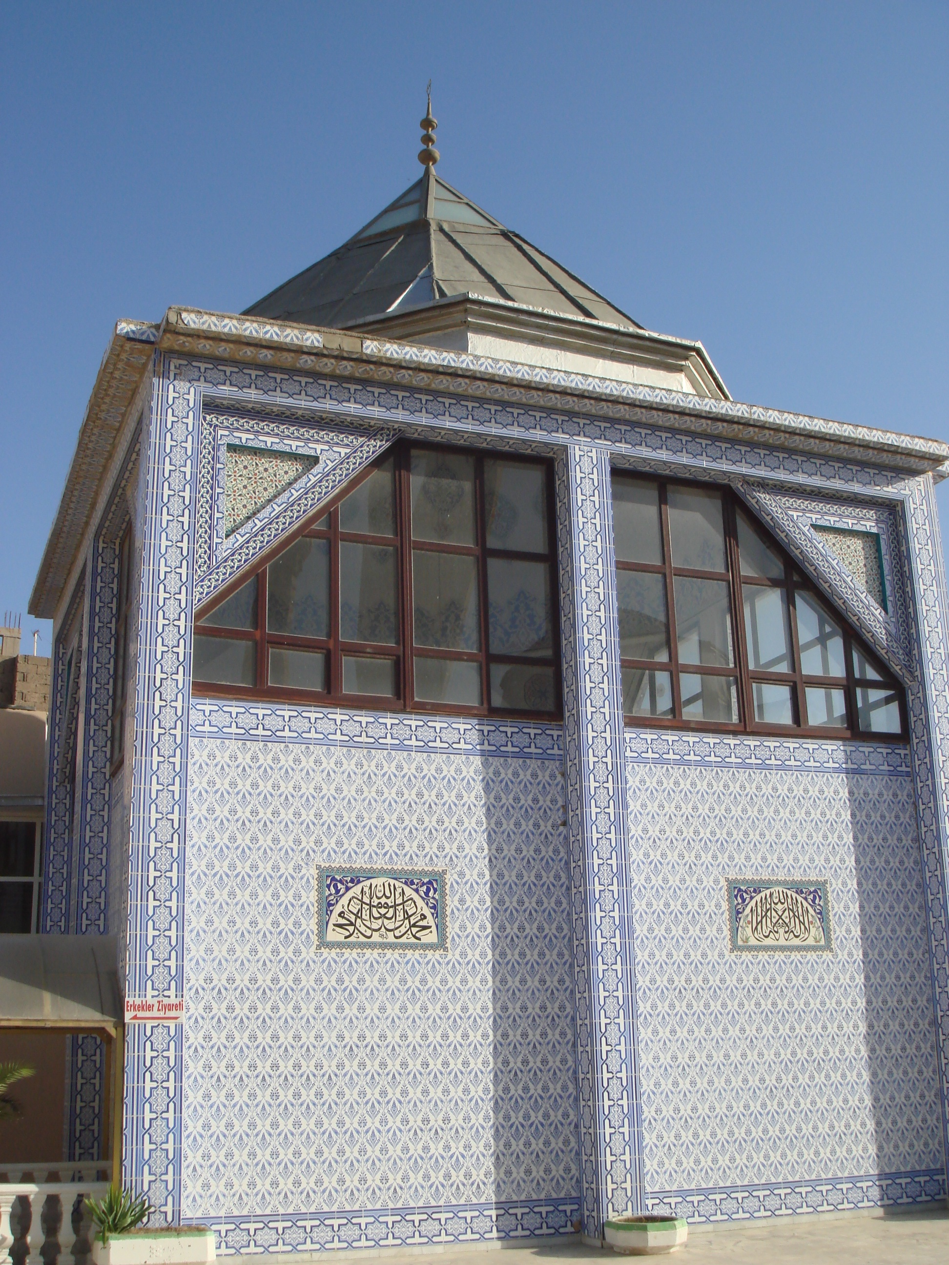 Place of Noah's grave in /Cizre, 2009. Kurdî: Mezelê Nûh pêxember ê Cizîra Botan, 2009.